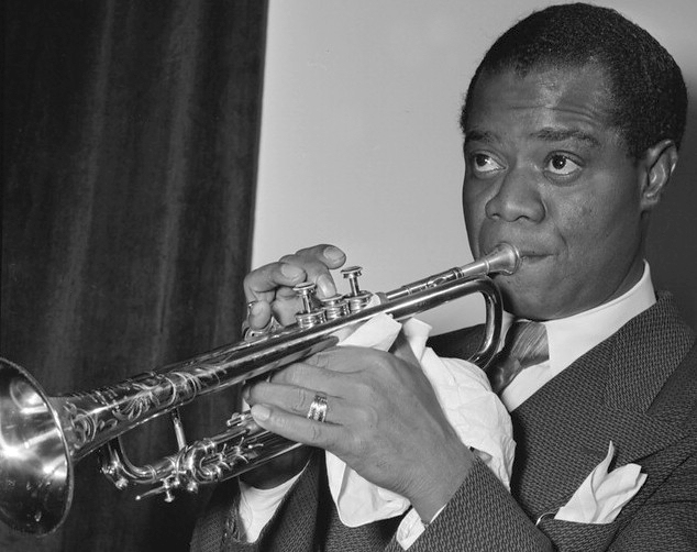 Louis Armstrong between 1938 and 1948 (William P. Gottlieb 09601)